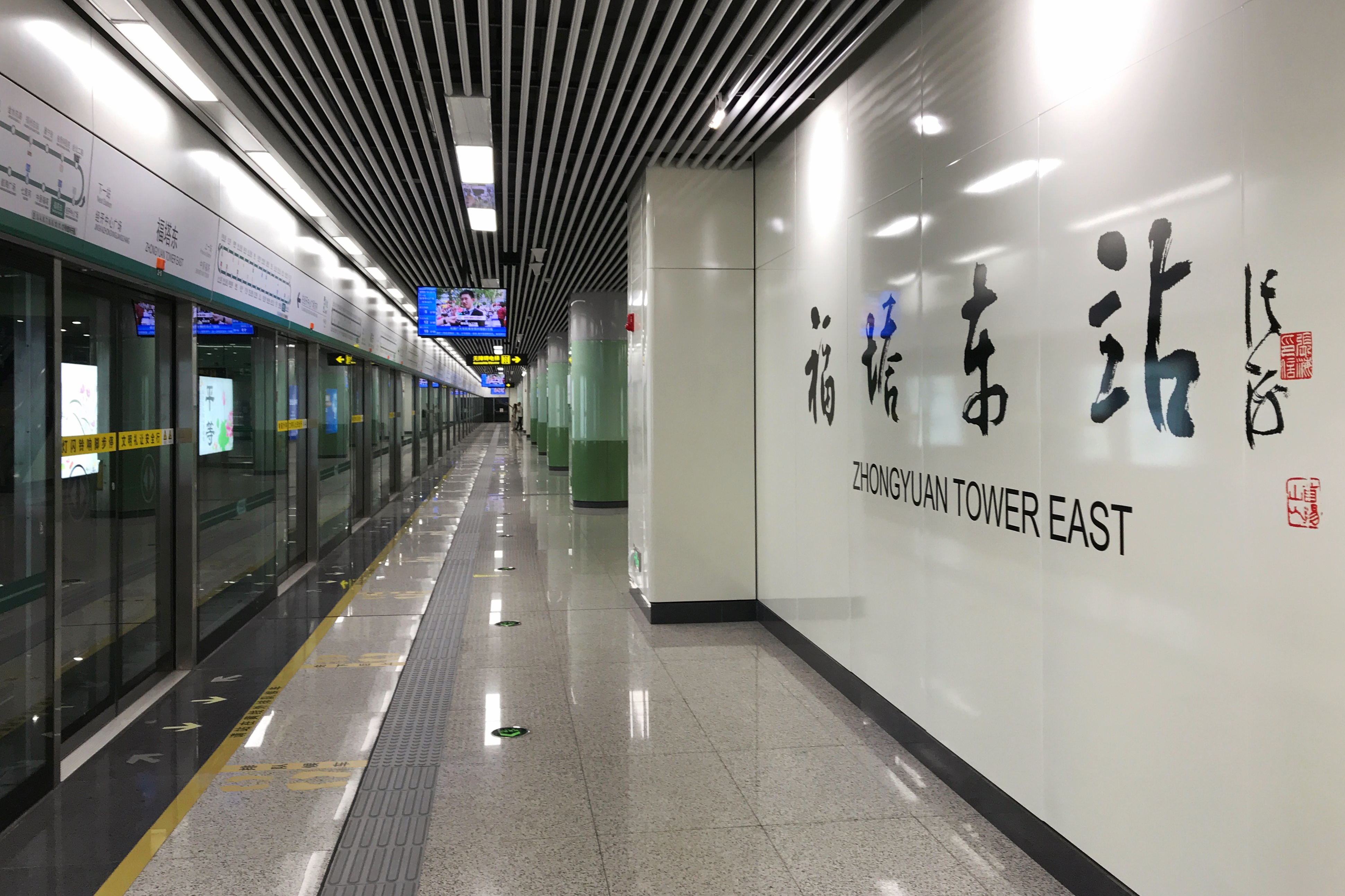 Platform of Line 5 at Zhongyuan Tower East Station